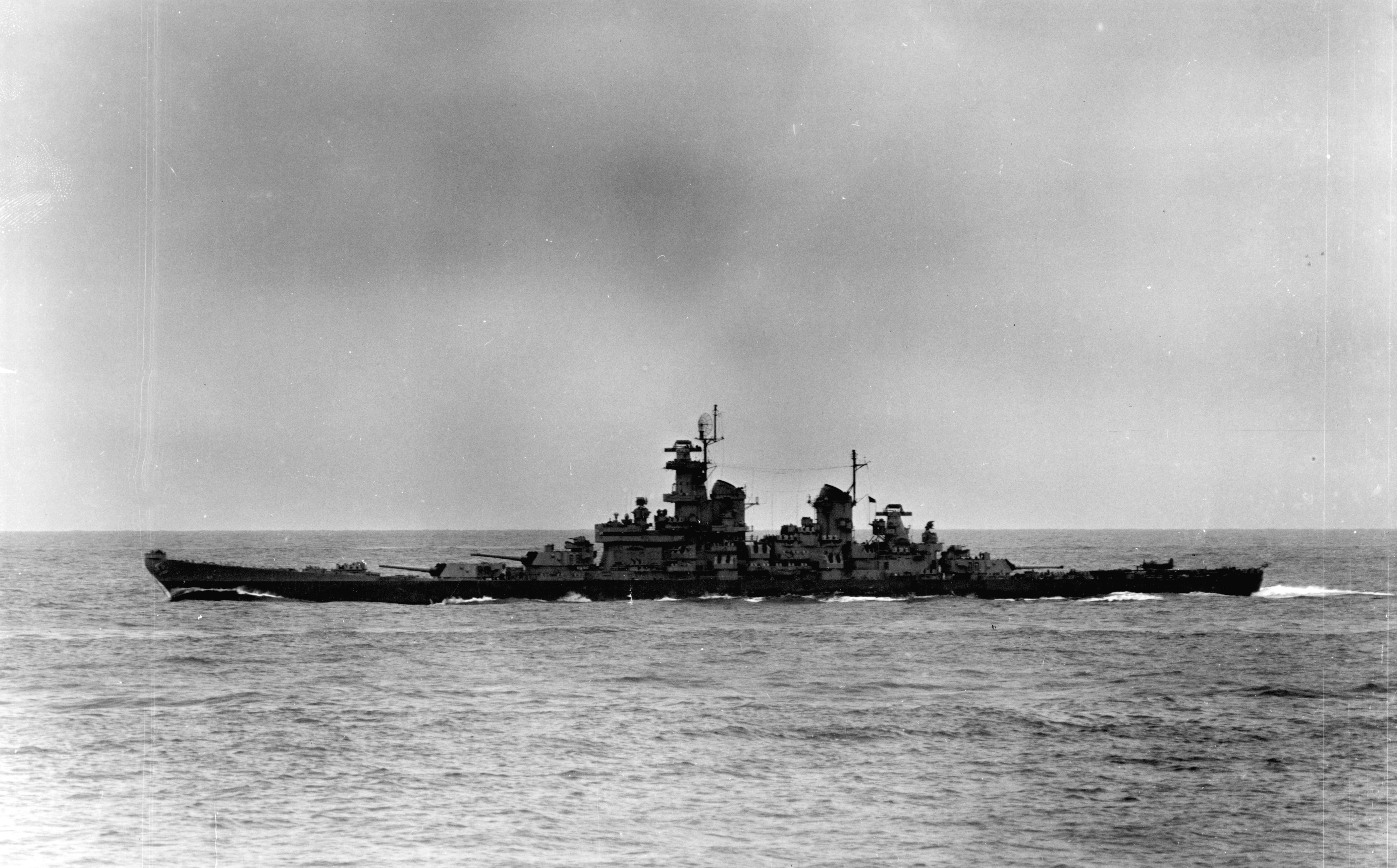 The U.S. Navy battleship USS Missouri (BB-63) at sea in the Pacific, circa early 1945, as seen from the aircraft carrier USS Intrepid (CV-11).